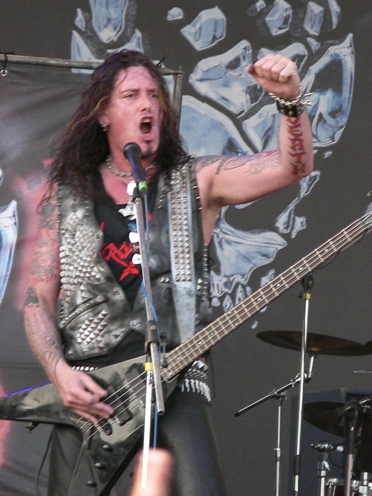 Marcel Schmier of Destruction.